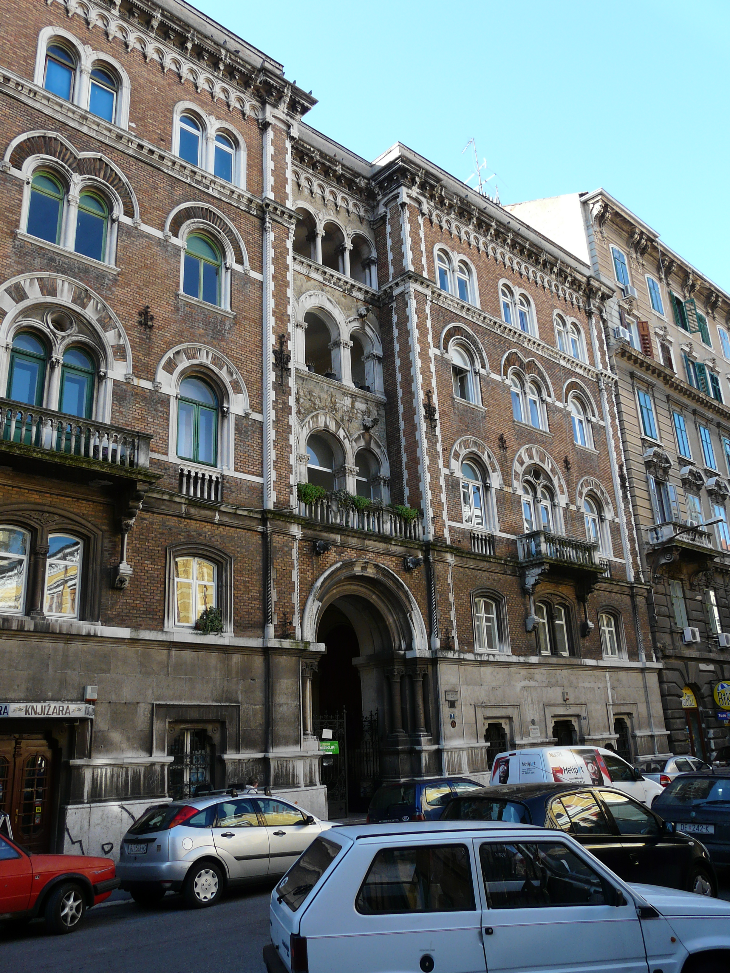 Venecijanska kuća in Rijeka, Croatia.